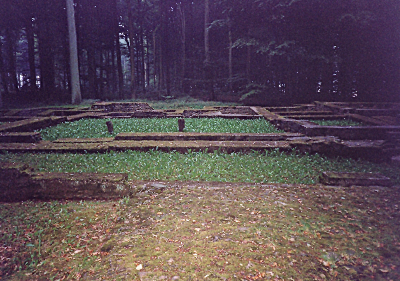 One of the major buildings at a Gallo-Roman site in Luxemboy One of the major buildings at a Gallo-Roman site in Luxembourg. It's main use is to serve as an example of the kind of damage concrete and enthusiasm can do when mixed with a reconstruction project.